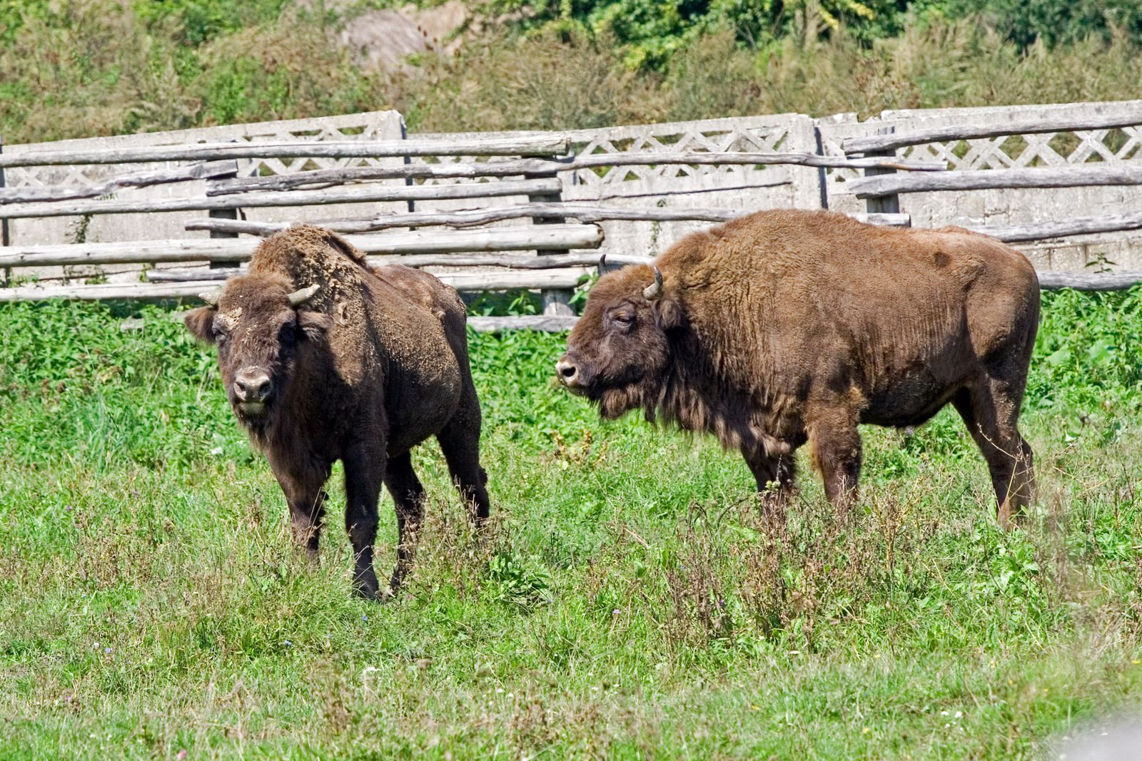 wisents in the Silvașu de Jos (Hațeg) reservation, Romania